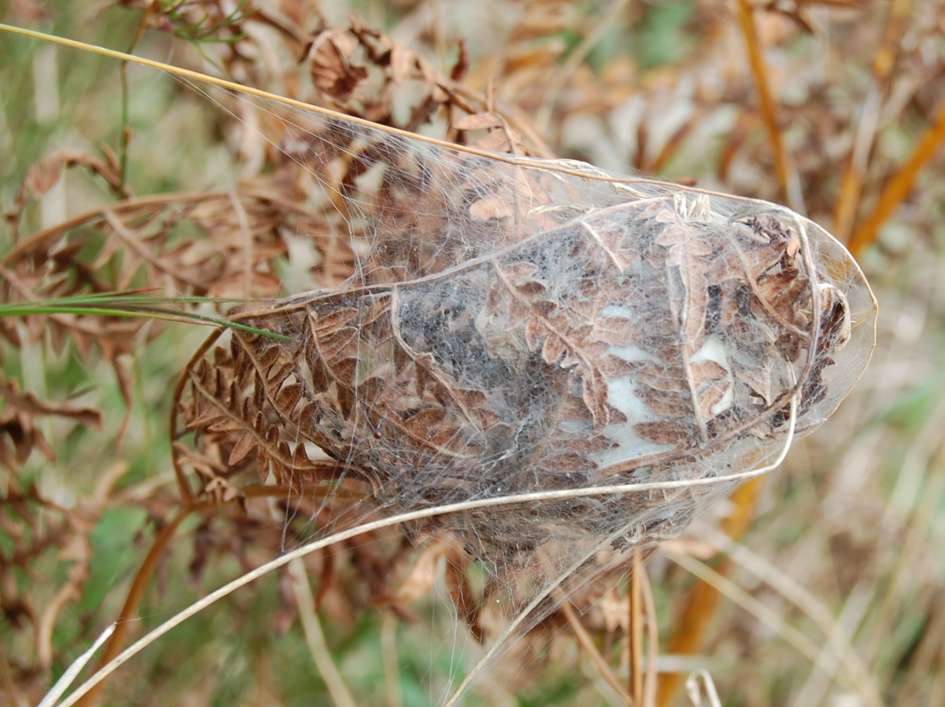 Cheiracanthium punctorium, breeding web on farn